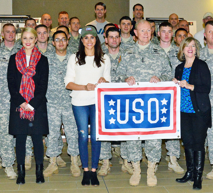 U.S. Army Gen. Martin E. Dempsey, chairman, Joint Chiefs of Staff, Col. Pedro Almeida, Chief Staff U.S. Army Africa, Col. Robert L. Menist, commander of U.S. Army Garrison Vicenza, Glee star Dianna Agron, Suits star Meghan Markle, actor, comedian and retired Marine Corps Lt. Col. Rob Riggle, retired Chicago Bears linebacker Brian Urlacher, Washington Nationals pitcher Doug Fister, country singer Kellie Pickler and U.S. Army paratroopers of the 173rd Airborne Brigade pose for a group photo in Sigholtz Center at Caserma Del Din, Vicenza, Italy, Dec. 7, 2014. (U.S. Army photo by Visual Information Specialist Davide Dalla Massara/released)